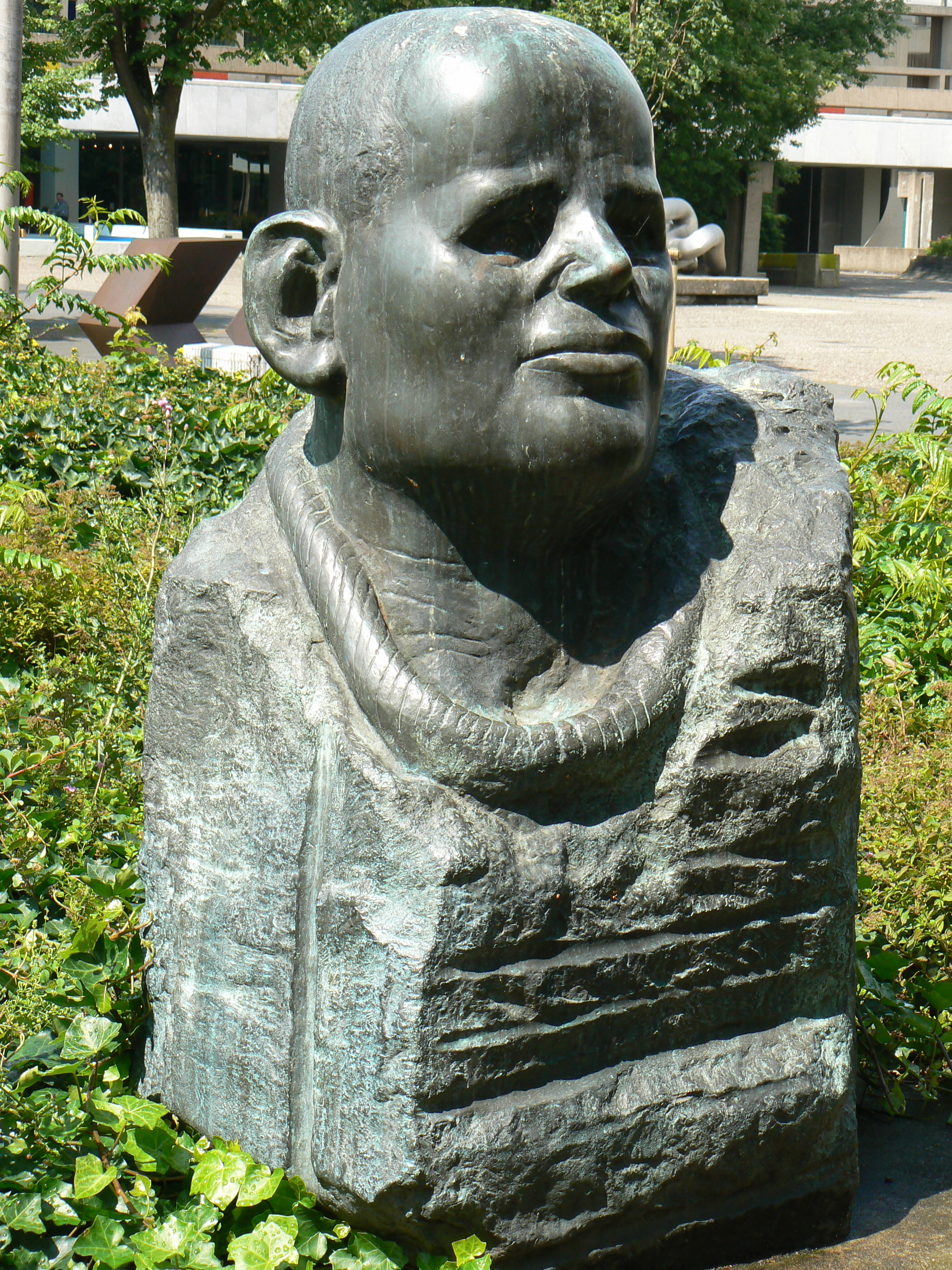 Portrait of Dietrich Bonhoeffer (1977) by Alfred Hrdlicka, Skulpturenmuseum Glaskasten in the city center of Marl, Germany.